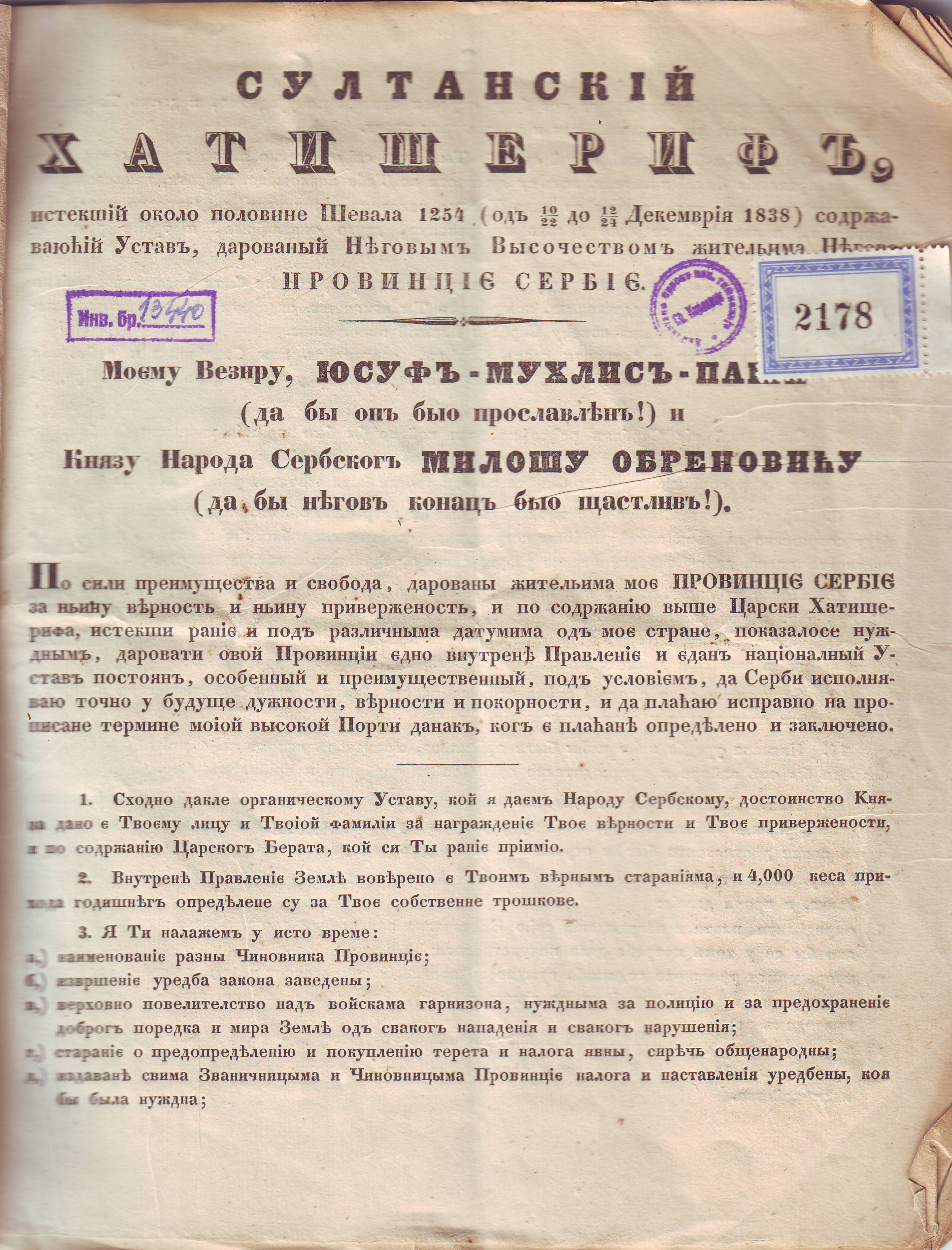 The first page of the Serbian Constitution of 1838. Srpski (latinica): Prva strana Ustava/Hatišerifa Kneževine Srbije iz 1838. godine.